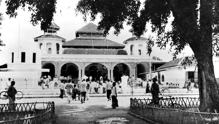 Mosque